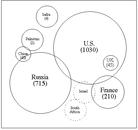 Venn diagram displaying the historical sharing of nuclear weapons knowledge among declared nuclear weapon states (solid circles), undeclared nuclear weapon states (dashed circles), and South Africa, a former undeclared nuclear weapon state. The number of explosive nuclear tests performed is given in parentheses. Area of overlap is not strictly proportional to the degree of knowledge sharing, as this is difficult to quantify. The Russia-U.S. overlap reflects the recent purchase by the U.S. Defense Special Weapons Agency (via a detailed ne~otiated contract) of a large amount of data concerning the former Soviet test program. Transfer of information from nuclear weapon states to nonnuclear weapon states that would assist the latter "in any way' to acquire nuclear explosive devices is prohibited under Articles I and II of the Nuclear Non-Proliferation Treaty.